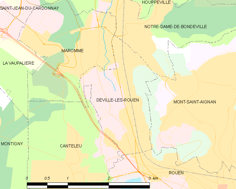 Map of French municipality Déville-lès-Rouen